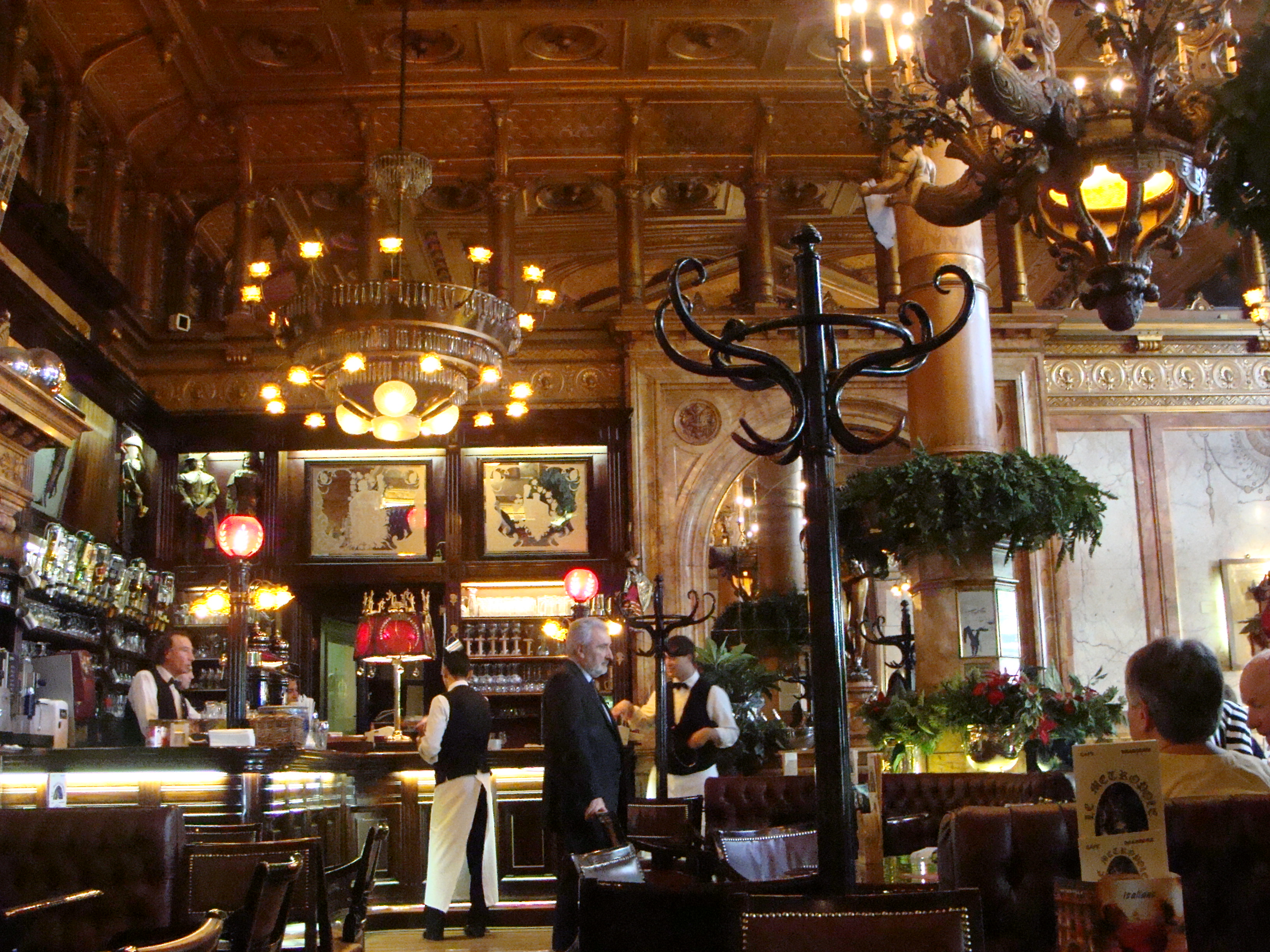 Hotel Metropole, Brussels - The Cafe Metropole